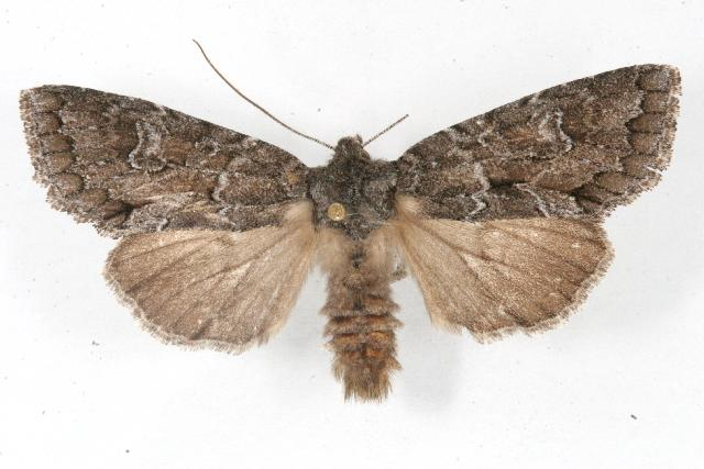 Xylotype arcadia, Quesnel: Schiste Creek: Hydraulic Rd, British Columbia, Canada